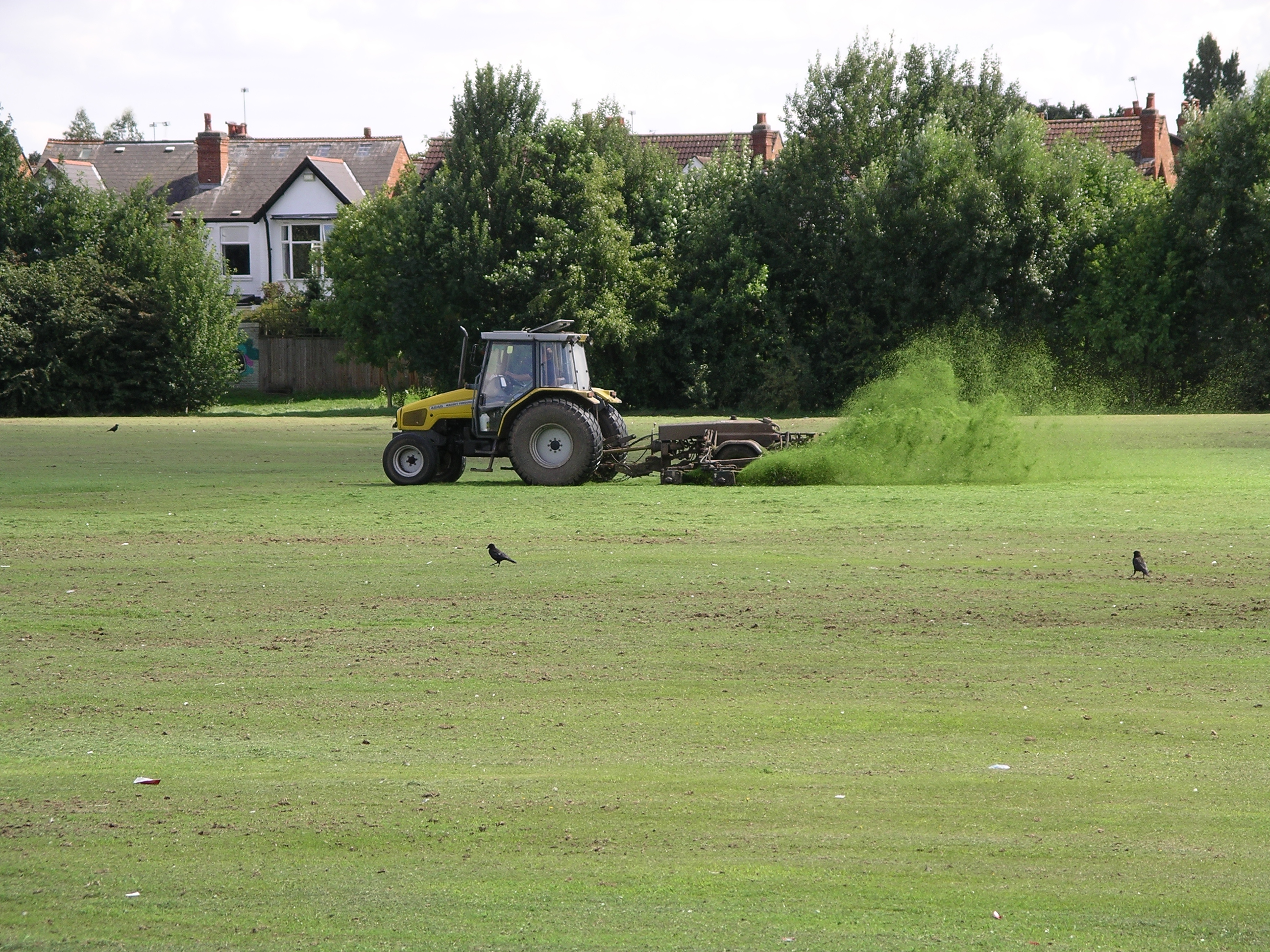 Photo of Hearsall Common, Coventry, England, showing a tractor cutting the grass.